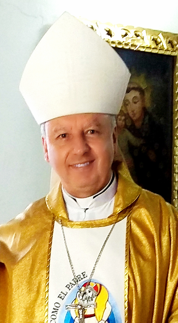 Monsignor Juan Vicente Cordoba, Bishop of Fontibon